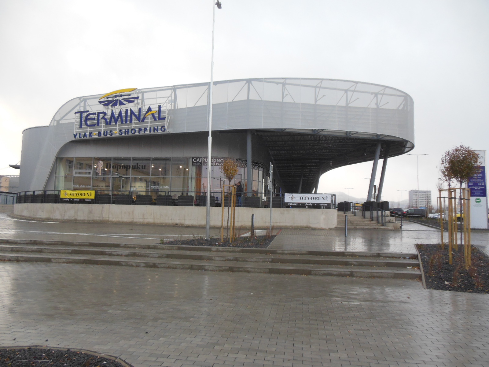 Terminal Shopping Center in Banská Bystrica, Slovakia, November 2017. The shopping centre is also a bus terminal.